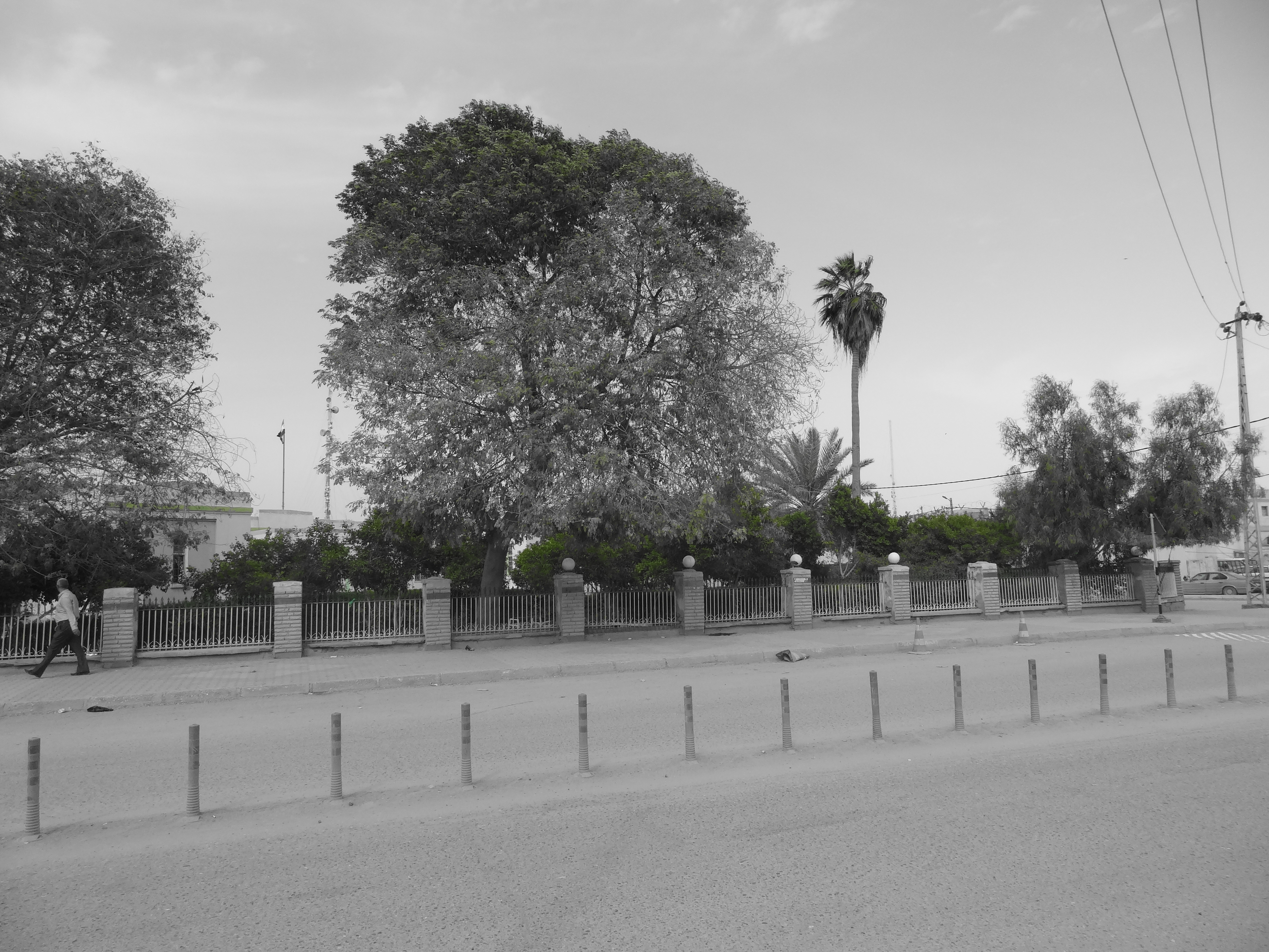 Hello I Sajjad al-Khafaji, from Iraq live in the city of Hello I Sajjad al-Khafaji, from Iraq live in the city of Diwaniyah, the images of the cities that I live in one of these schools and tree picture in the city of Diwaniya Template:Wiki Loves Earth Iraq